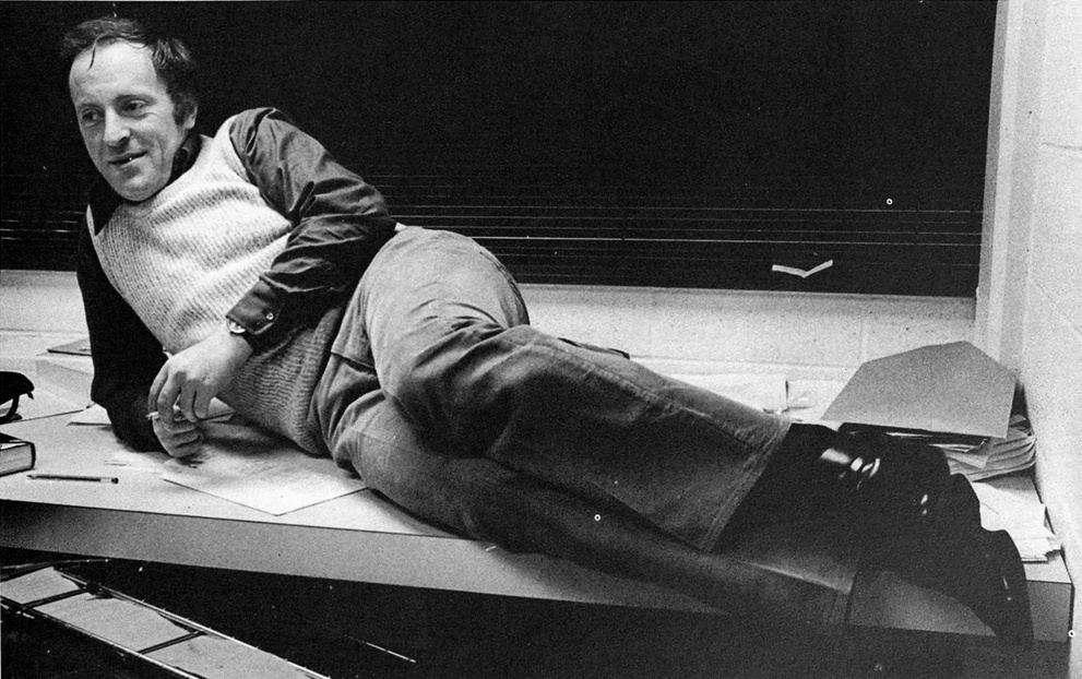 Photograph of Josef Brodsky, teaching at University of Michigan